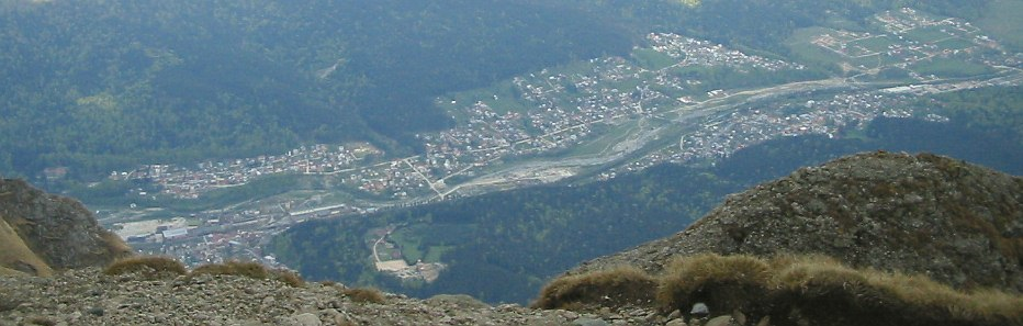 Busteni, as seen from the Caraiman mountain -- on a pretty foggy of the spring 2004